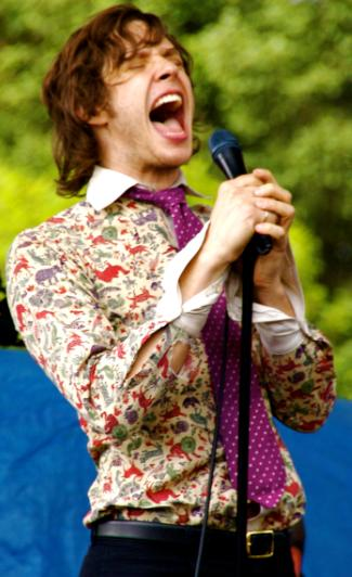 Musician Damian Kulash performs with his band, OK Go, at the Albany Tulip Festival in May 2006. This image is a shrunken, cropped, and renamed version of the initial picture.